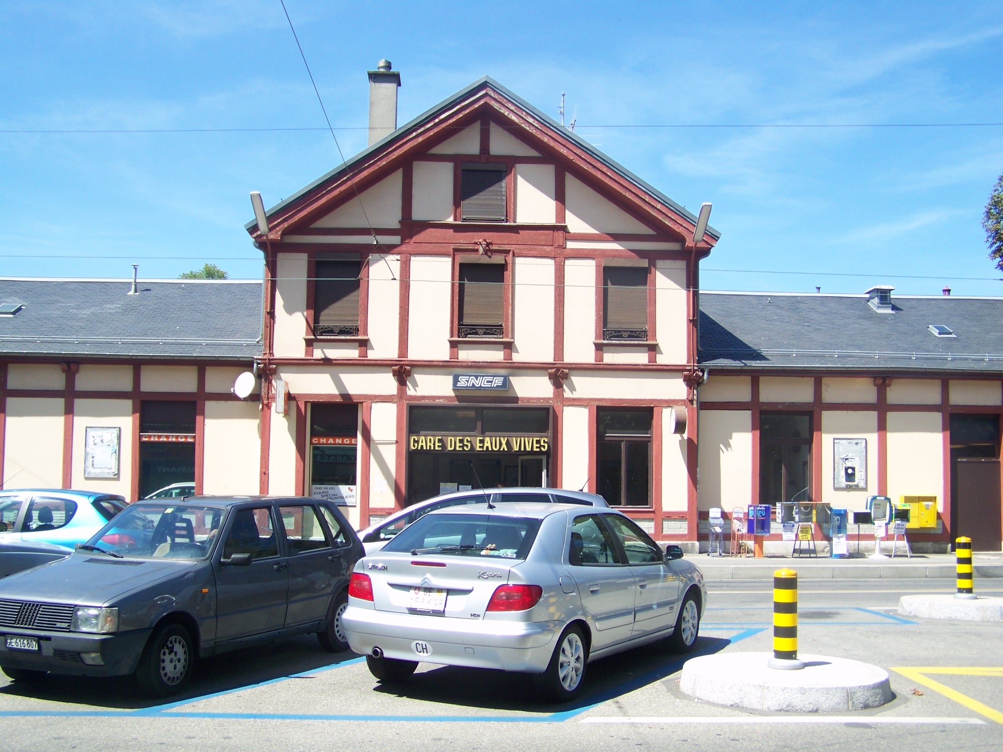 Genève Eaux-Vives railway station in Geneva, Switzerland, a end of line station for French commuter trains.